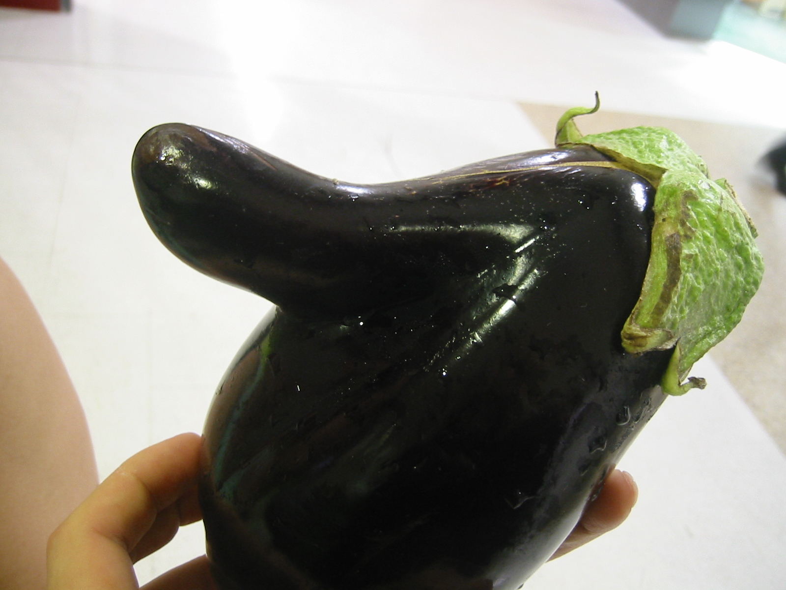 An Aubergine developmental abnormality